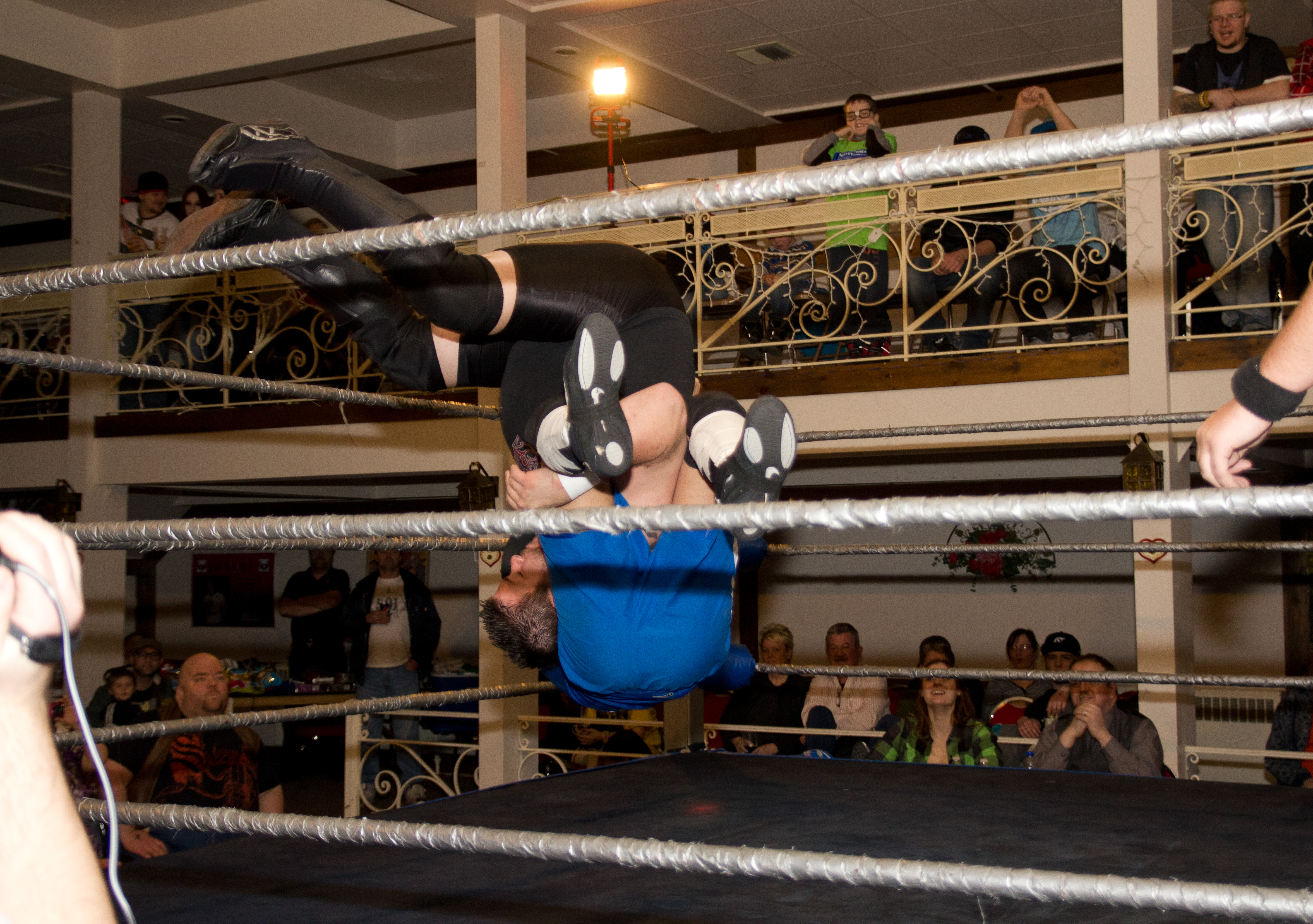 Kevin Steen executing a finlay roll from the top rope with Alessandro del Bruno on his shoulders.